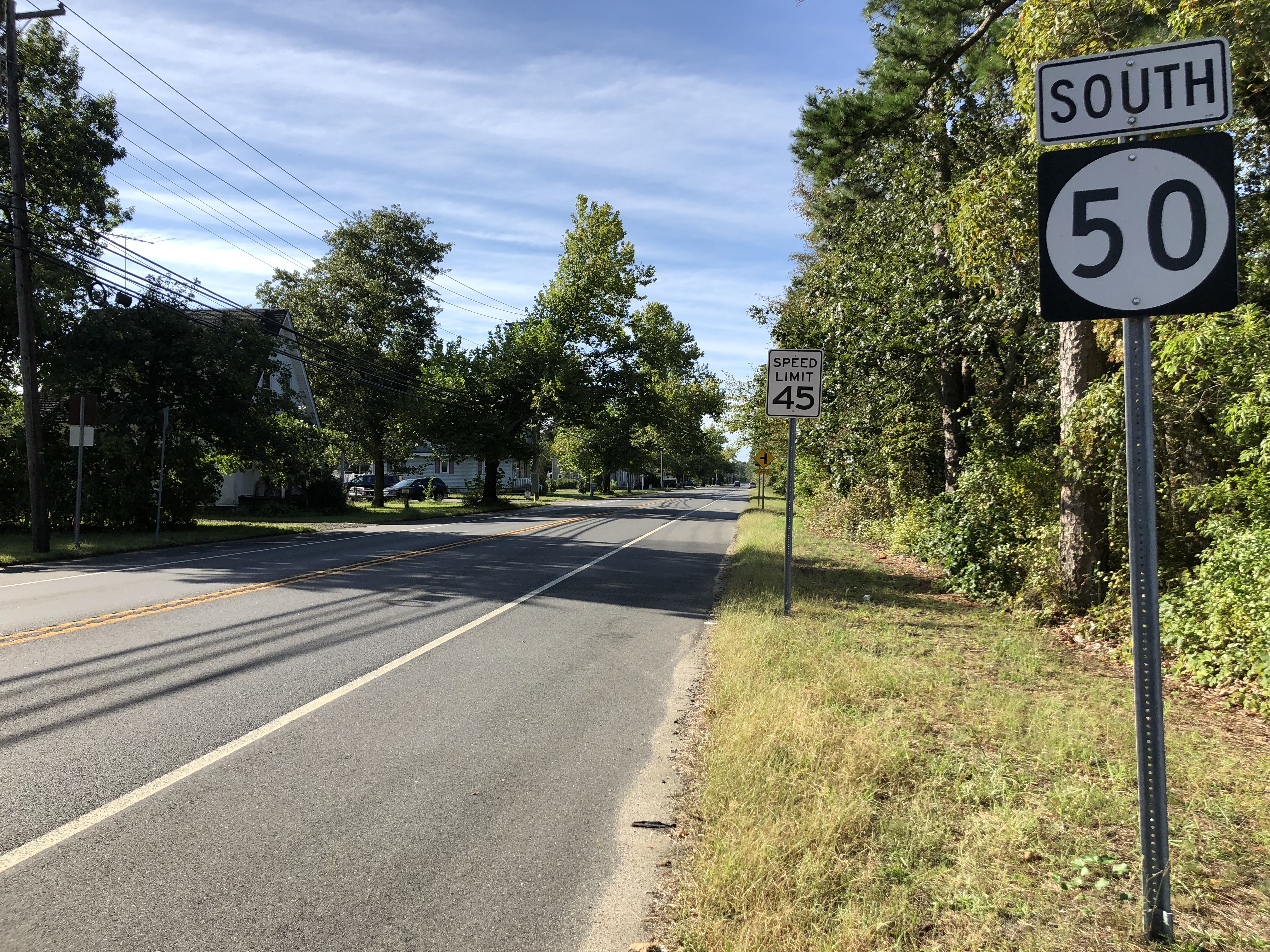 View south along New Jersey State Route 50 (Boulevard) just south of Atlantic County Route 669 (Eleventh Avenue) and Grant Street in Weymouth Township, Atlantic County, New Jersey